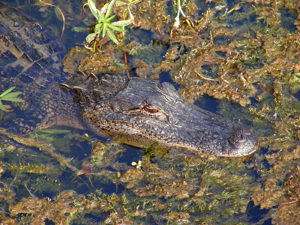 Gator in Louisiana. Alligator mississippiensis en un pantano